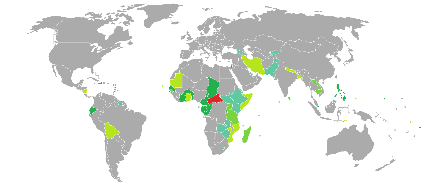 Visa requirements for Central African Republic citizens Central African Republic Visa free access Visa on arrival eVisa Visa available both on arrival or online Visa required